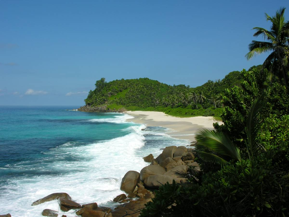 Seychelles, Petit Police, Mahé Island